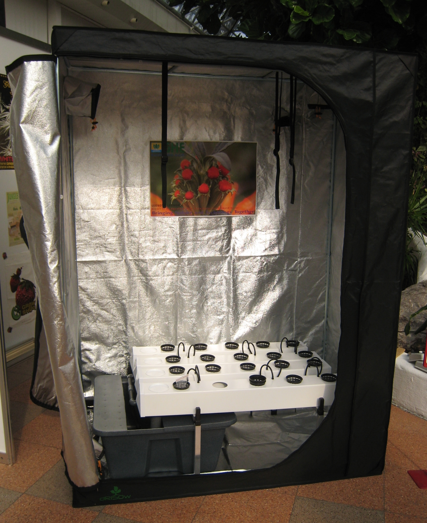 A grow box with a hydroponic system in it